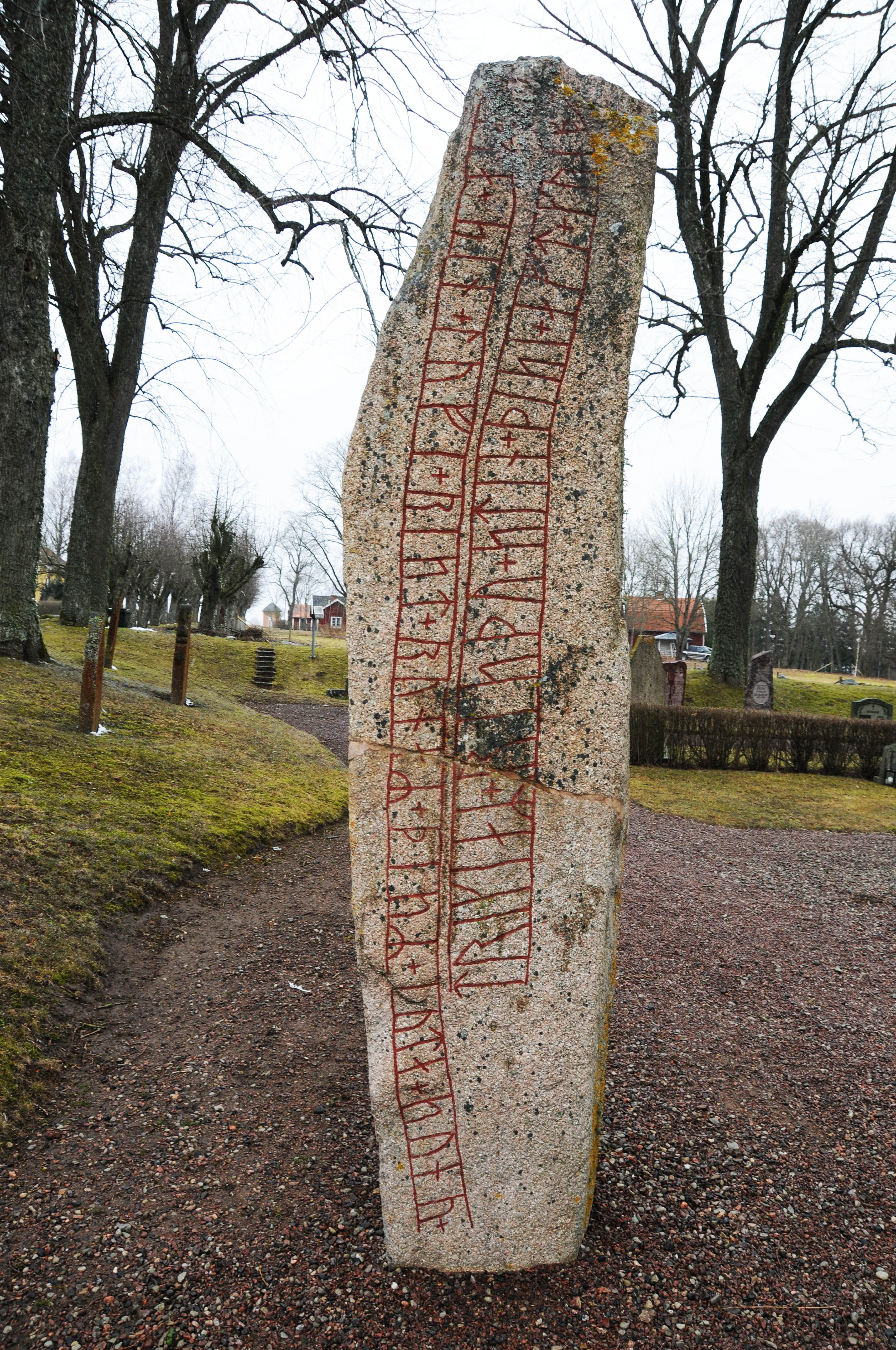 Runestone Ög 64 at Bjälbo kyrka, Mjölby municipality, Östergötland.